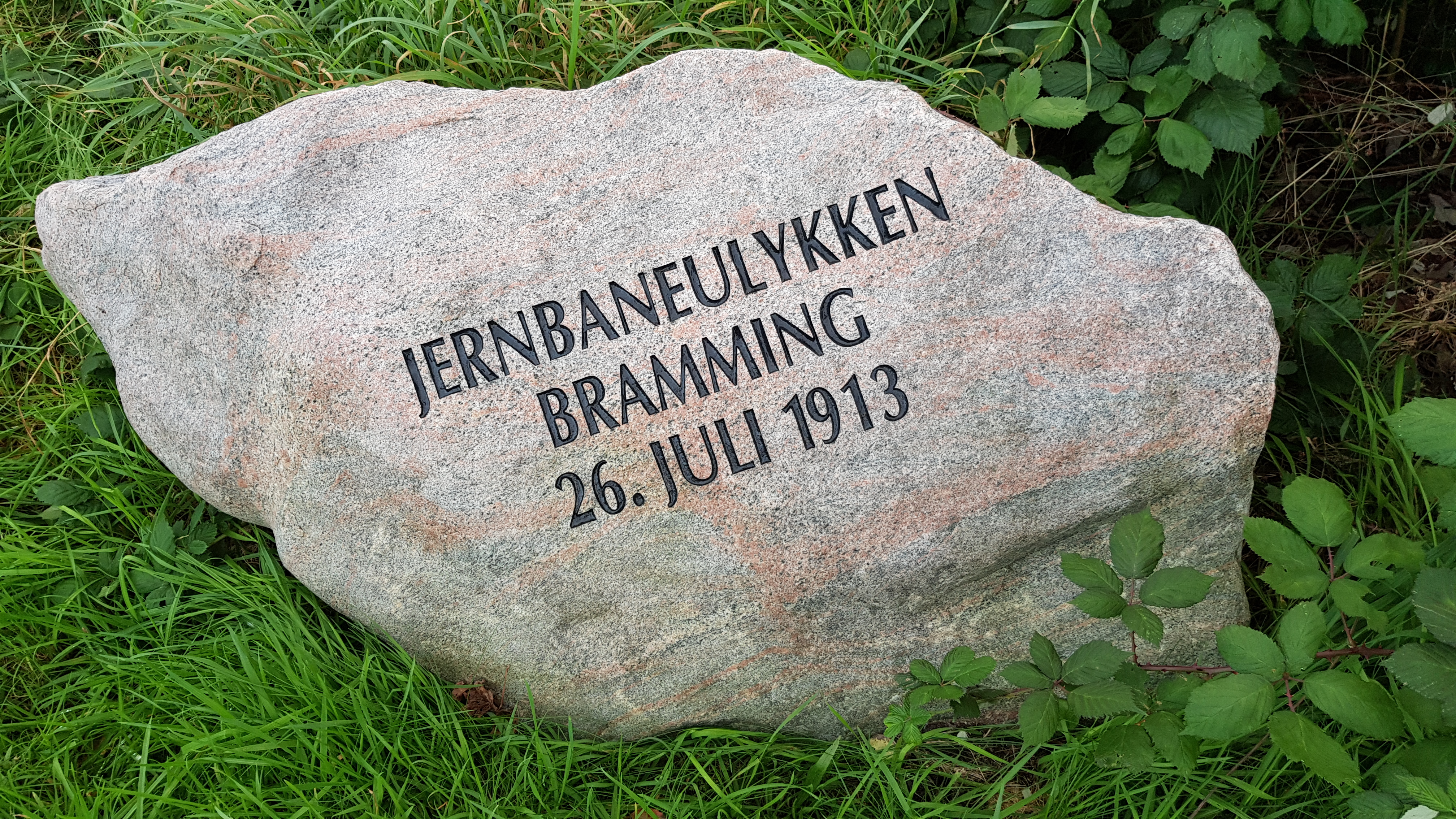 Detail of memorial stone of the Bramminge railroad accident.